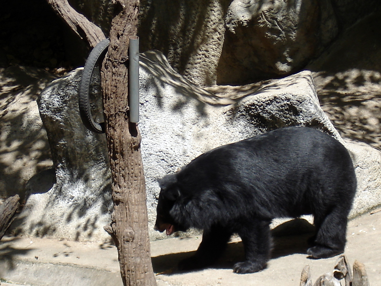 Photograph of a Formosan Black Bear at Chiang Mai Zoo, Thailand